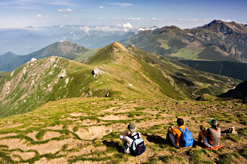 View of the Cantabrian Mountains from to Coriscao (2,234 m), in Cantabria (Spain).